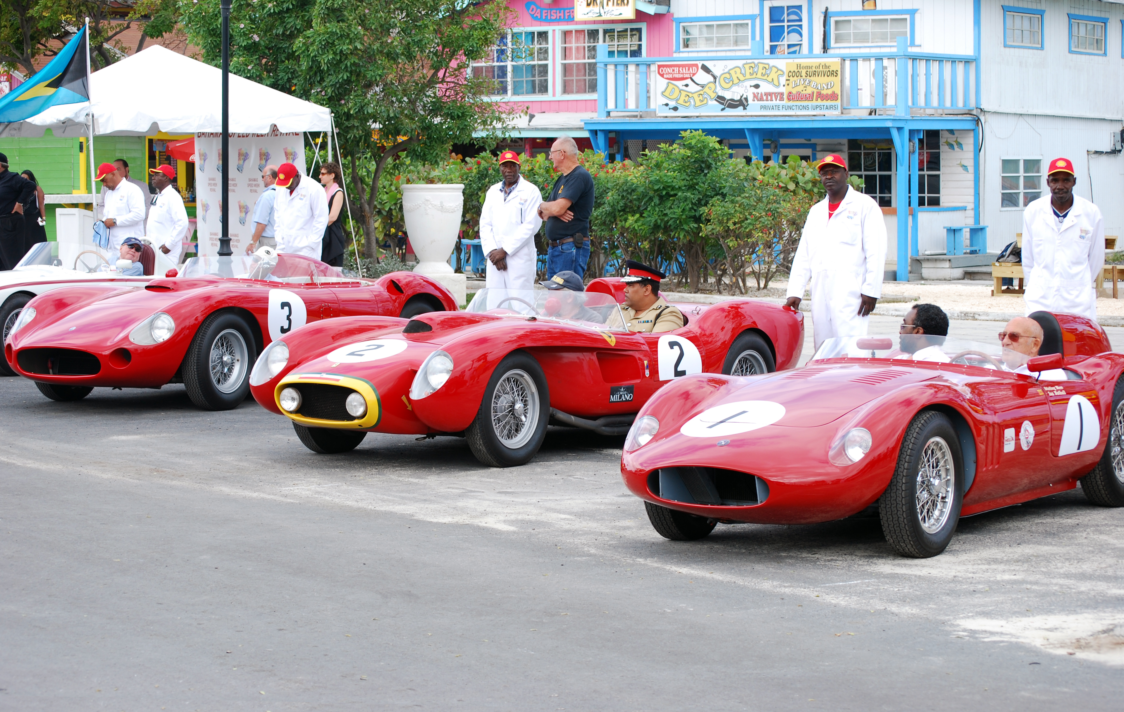 2011 Bahamas Speed Week. In the foreground Stirling Moss in his OSCA FS372 with the Bahamas Minister of Tourism, Vincent Vanderpool-Wallace, in the passenger seat. Behind is a replica of a 1957 Ferrari Testa Rossa of John Lewis, then the 1958 Maserati 450S of Rob Walton (of Wal-Mart). The white car in the background is an OSCA 2000S.